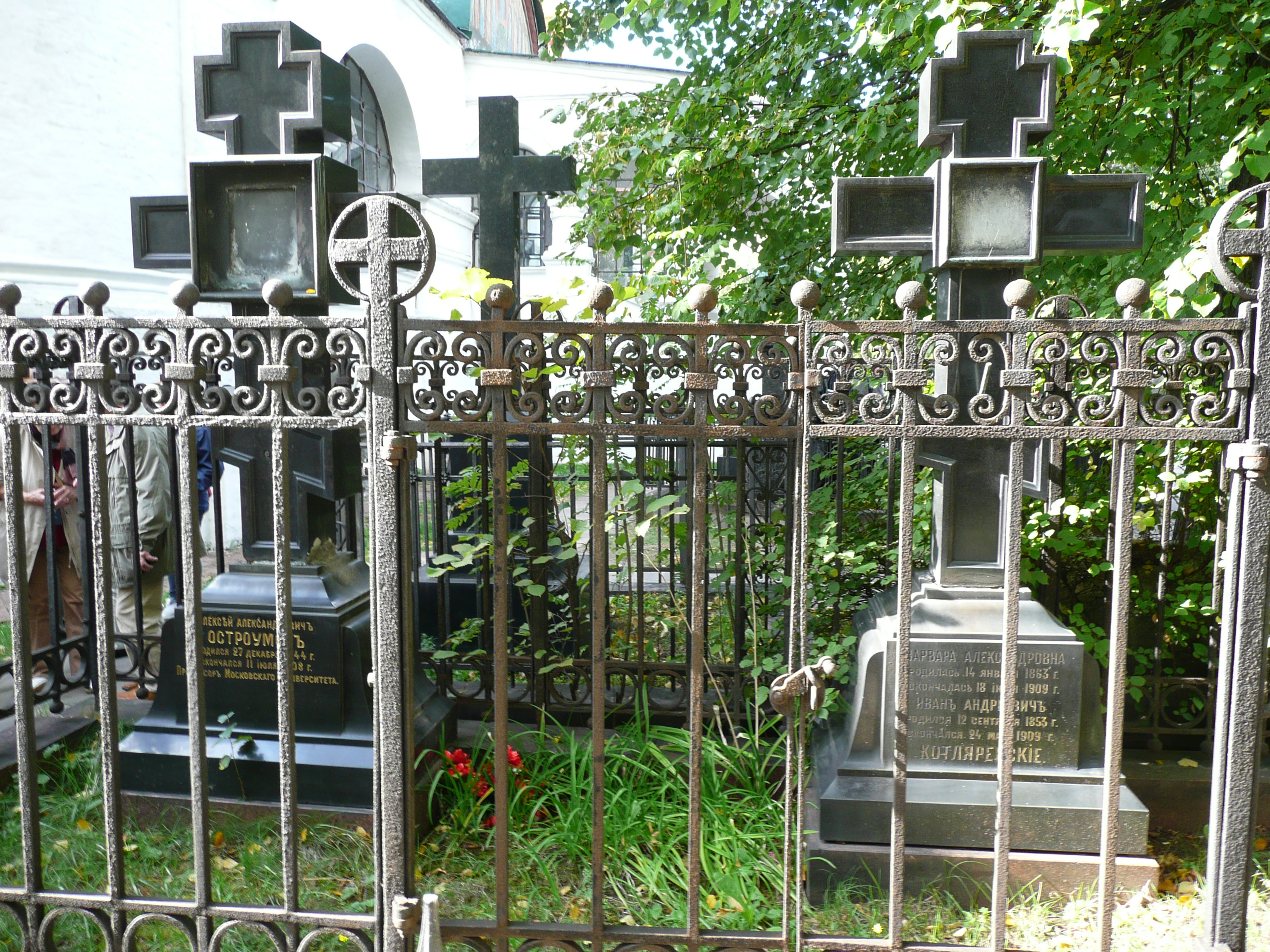 Tomb of Aleksey Ostroumov (to the right) in the Novodevichy Convent